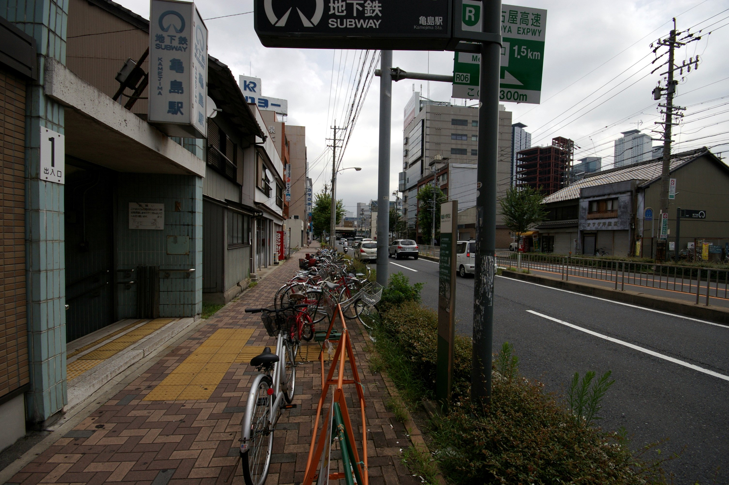 Nagoya Kamejima Subway station